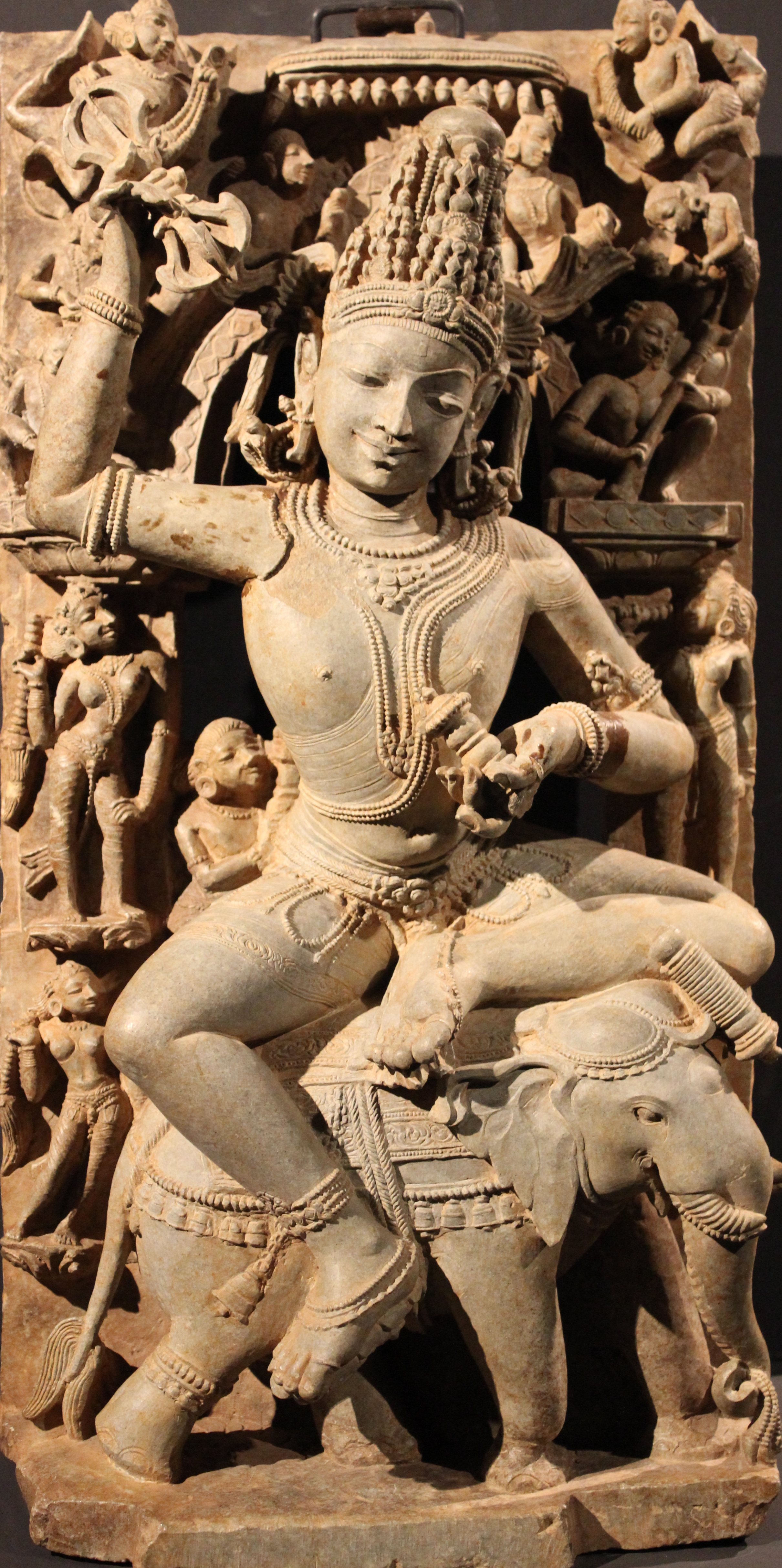 The Gods of the 8 directions North East - Ishana East - Indra South East - Agni South - Yama South West - Nairrti West - Varuna North West - Vayu North - Kubera